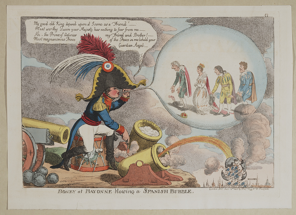 Title: Boney at Bayonne blowing a Spanish bubble Abstract: Print shows Napoleon convincing the Spanish royalty, who are enclosed in a bubble, of his friendship as he fires a cannonball at Madrid. Physical description: 1 print : etching, color ; 24.4 x 34.5 cm. Notes: Forms part of: British Cartoon Prints Collection (Library of Congress).; Information from an unpublished P&P checklist, "British Political and Social Caricatures, 1655-1832 ... not in the published catalogs of the British Museum," compiled in 1968 (NC1470 .M4 v. 2).; [No.] 47.; Most images available on microfilm, "British Political and Social Cartoons, 1655-1832, not in the British Museum," produced by the Library of Congress Photoduplication Service, 1970 (Microfilm LOT 12022). Unpublished checklist provides captions for images on microfilm.; Not found in British Museum Catalogue (BMC).